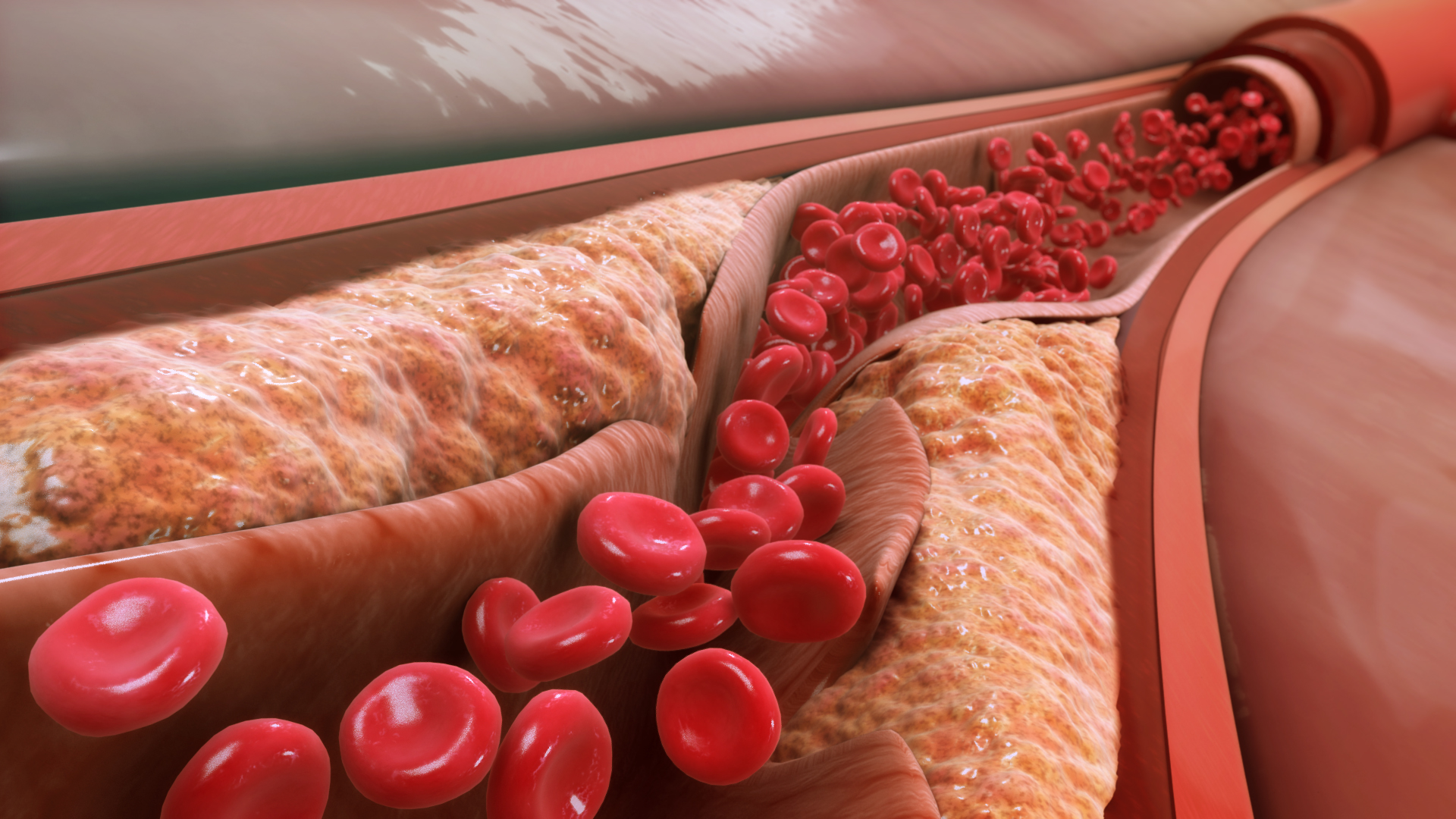 As atheroma enlarges, the arterial wall ruptures and releases blood clots that lead to narrowing of the artery.